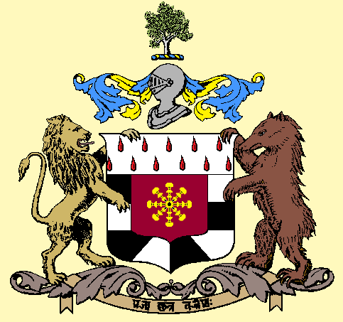 Panna State coat of arms This work is in the public domain in India because its term of copyright has expired. The Indian Copyright Act applies in India, to works first published in India. According to The Indian Copyright Act, 1957 (Chapter V Section 25), Anonymous works, photographs, cinematographic works, sound recordings, government works, and works of corporate authorship or of international organizations enter the public domain 60 years after the date on which they were first published, counted from the beginning of the following calendar year (ie. as of 2019, works published prior to 1 January 1959 are considered public domain). Posthumous works (other than those above) enter the public domain after 60 years from publication date. Any other kind of work enters the public domain 60 years after the author's death. Text of laws, judicial opinions, and other government reports are free from copyright. Photographs created before 1959 are in the public domain 50 years after creation, as per the Copyright Act 1911. This file may not be in the public domain outside India. The creator and year of publication are essential information and must be provided. See Wikipedia:Public domain and Wikipedia:Copyrights for more details. This image shows a flag, a coat of arms, a seal or some other official insignia. The use of such symbols is restricted in many countries. These restrictions are independent of the copyright status.